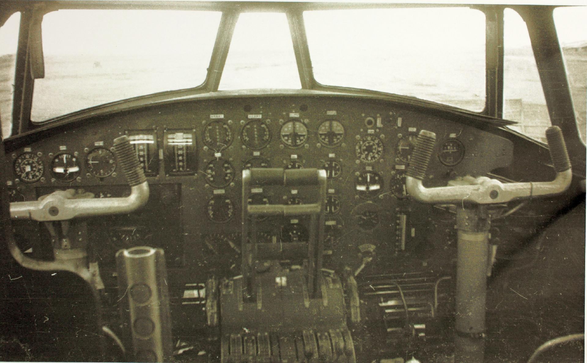 Nakajima G8N